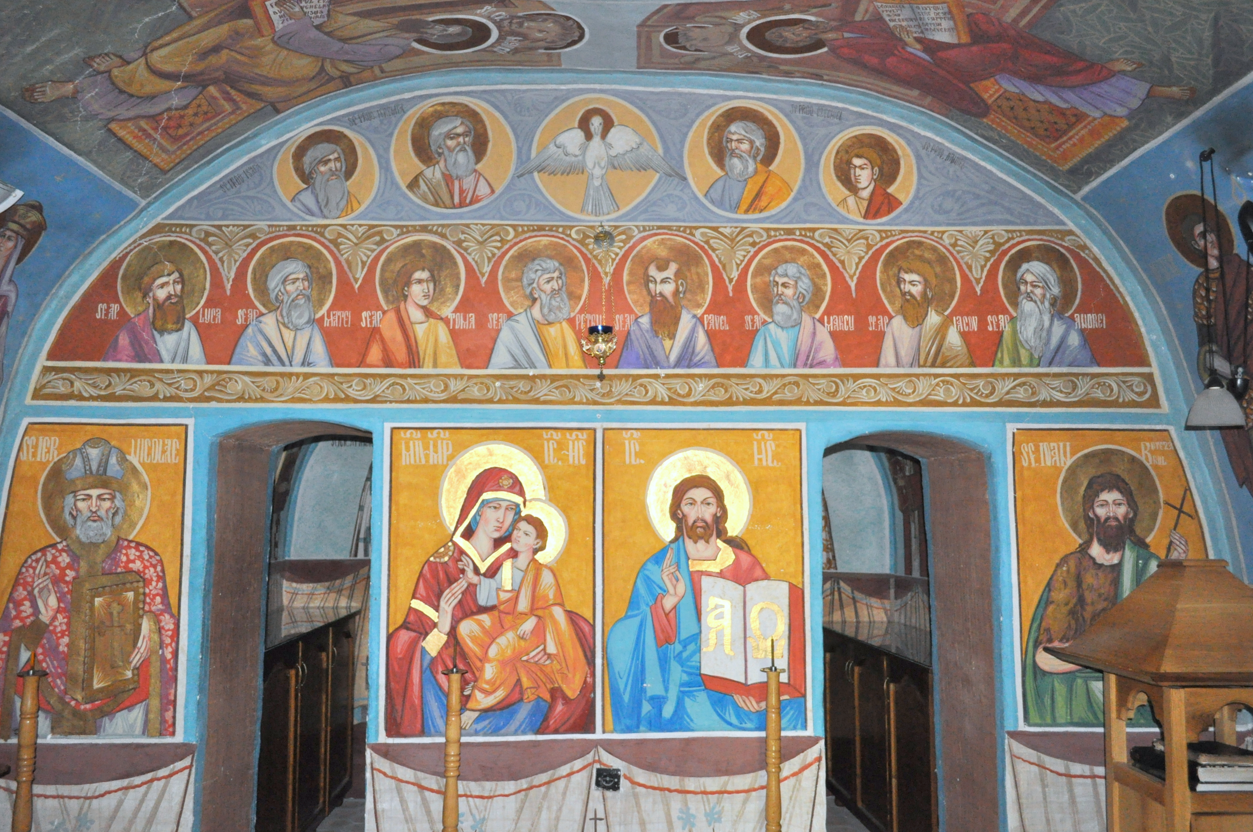 Holy Trinity church in Măgina, Alba county, Romania 01